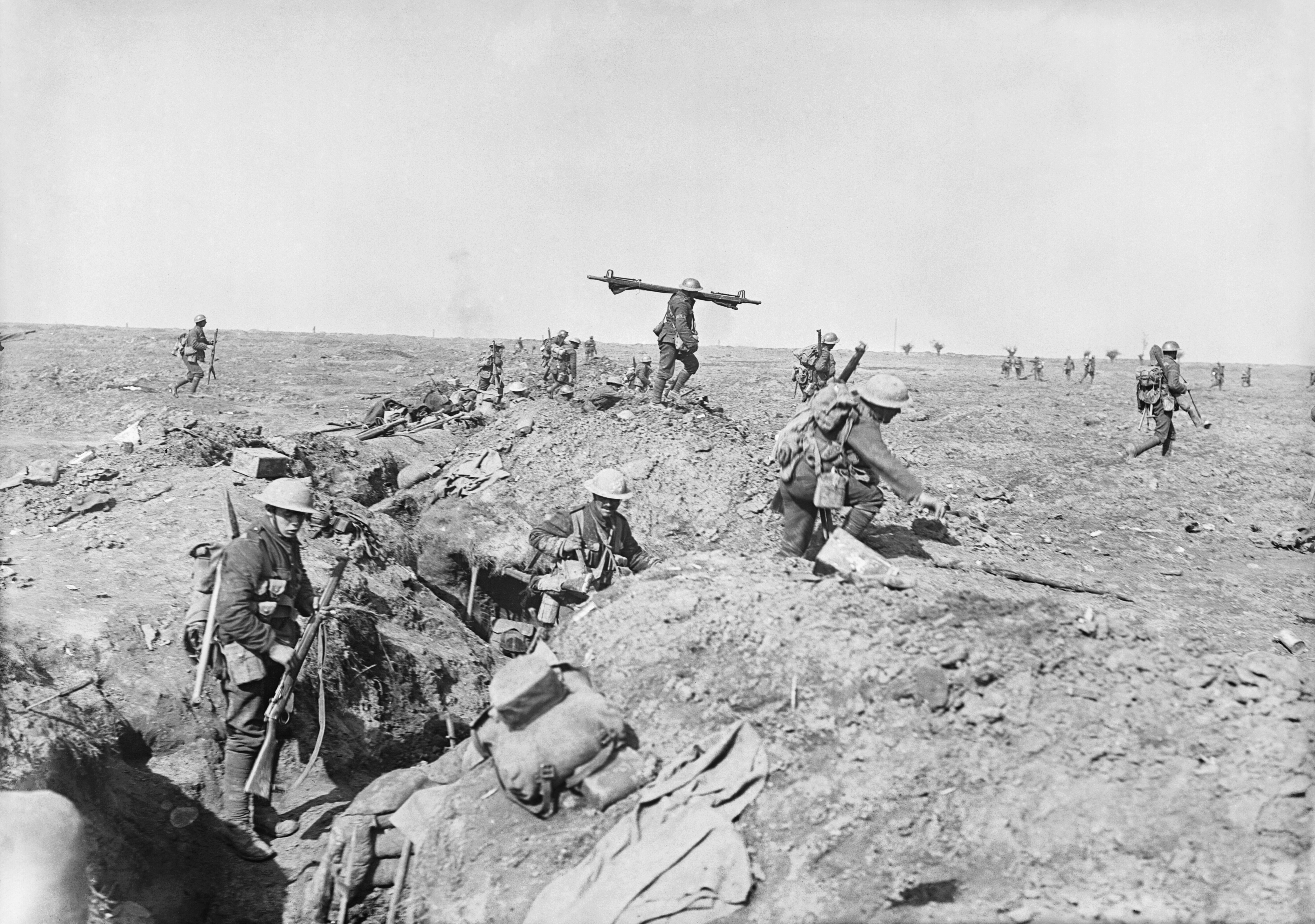 British infantry advancing in support during the Battle of Morval, 25 September 1916, part of the Battle of the Somme.The site is near Ginchy so the troops belong to the British XIV Corps, possibly the British 5th Division.